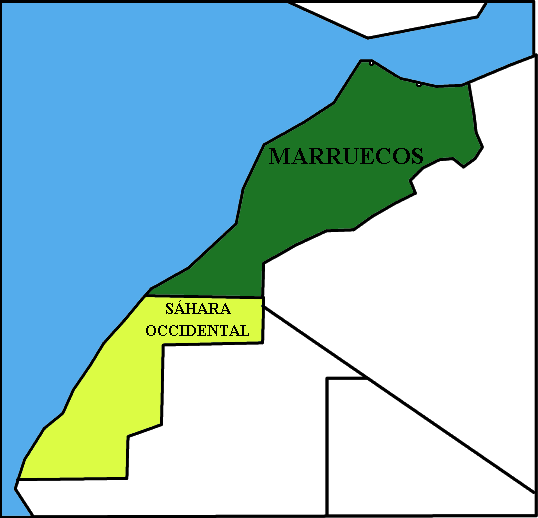 1) Morocco is shown separate from Western Sahara. Examples: [1], [2], [3] 2) Western Sahara is shown as a territory under Moroccan control (sometimes shaded in dashed lines, or with a dotted border). Example: [4], [5], [6], [7] 3) Western Sahara is shown included as part of the country of Morocco. Examples: [8], [9] I made the image